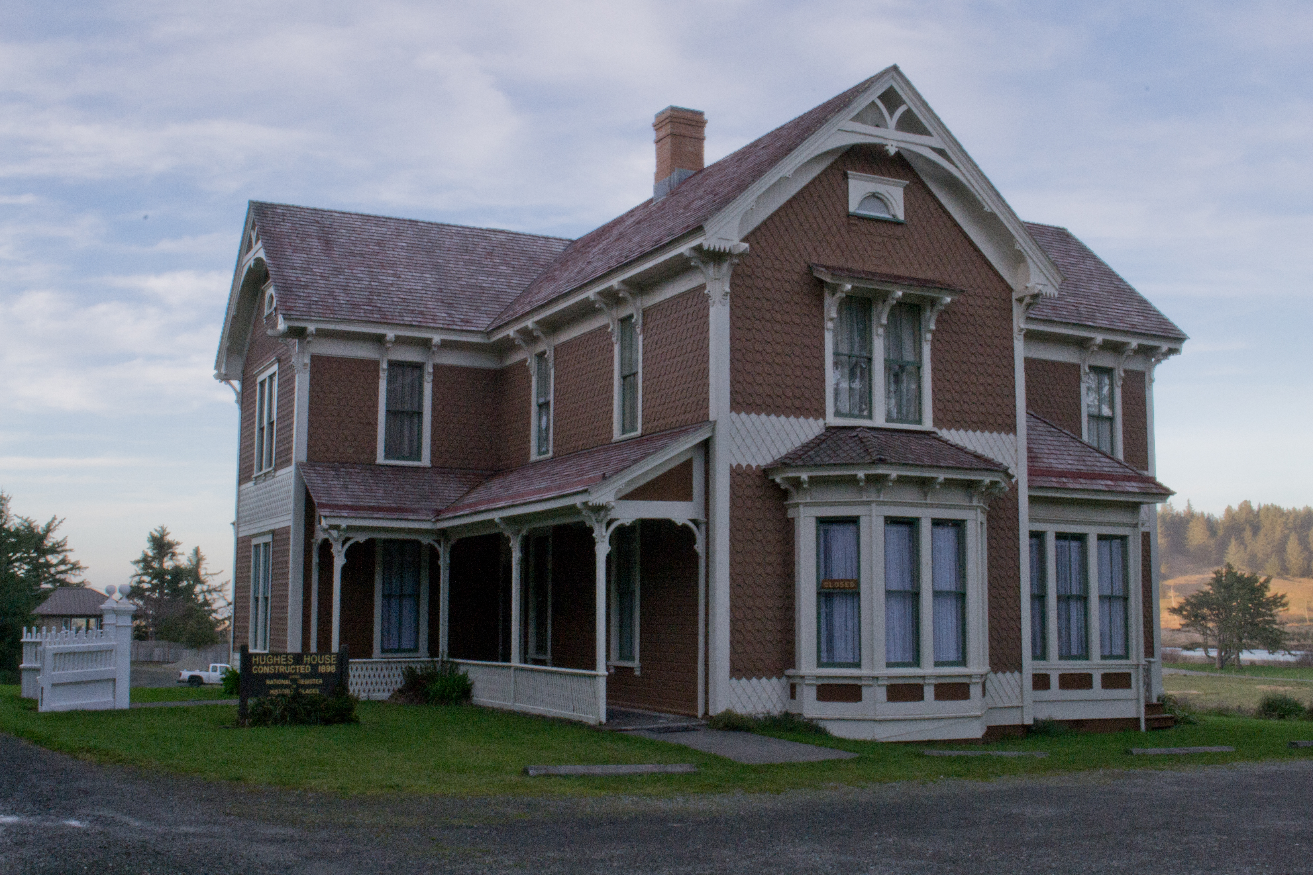 The Hughes House is part of the Cape Blanco State Park and on the National Register of Historic Places.